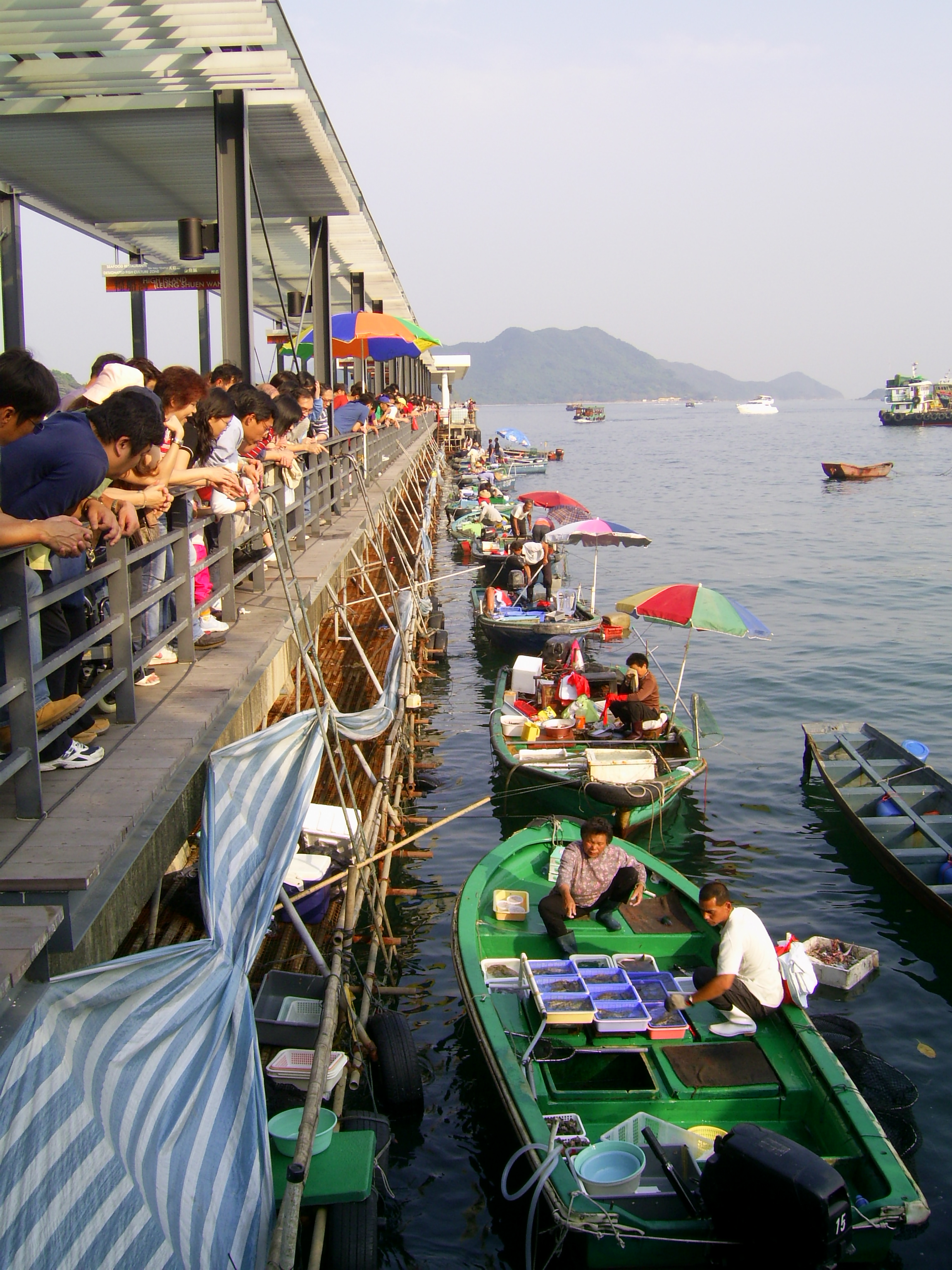 Fishermen selling seafood in Sai Kung, Hong Kong